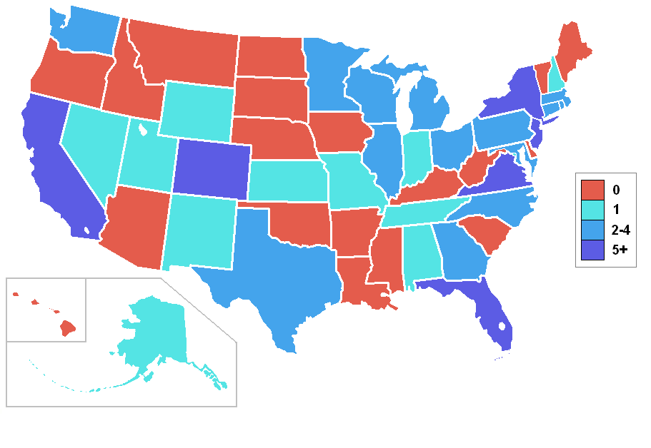 100 highest-income counties by per capita income as listed on Highest-income counties in the United States. Number of counties by state in the top 100